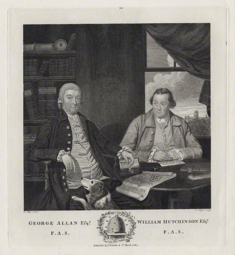 Line engraving of George Allan (1736–1800) and William Hutchinson (1732–1814).